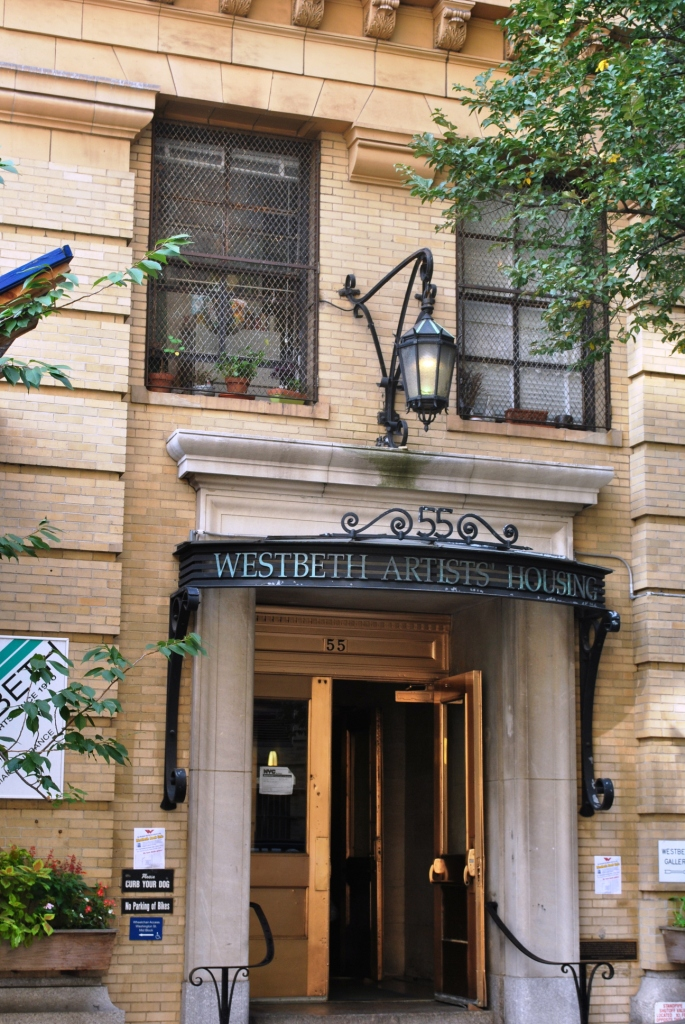 Westbeth Artists Community